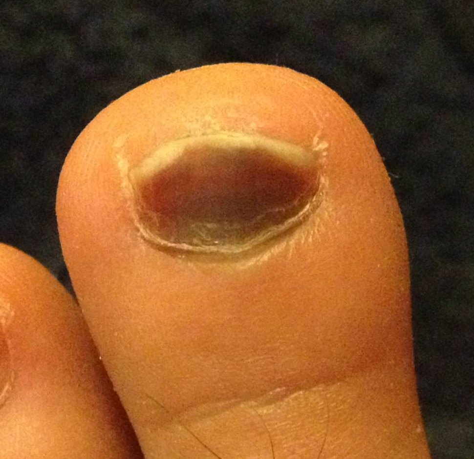 subungual ematoma with no bleeding